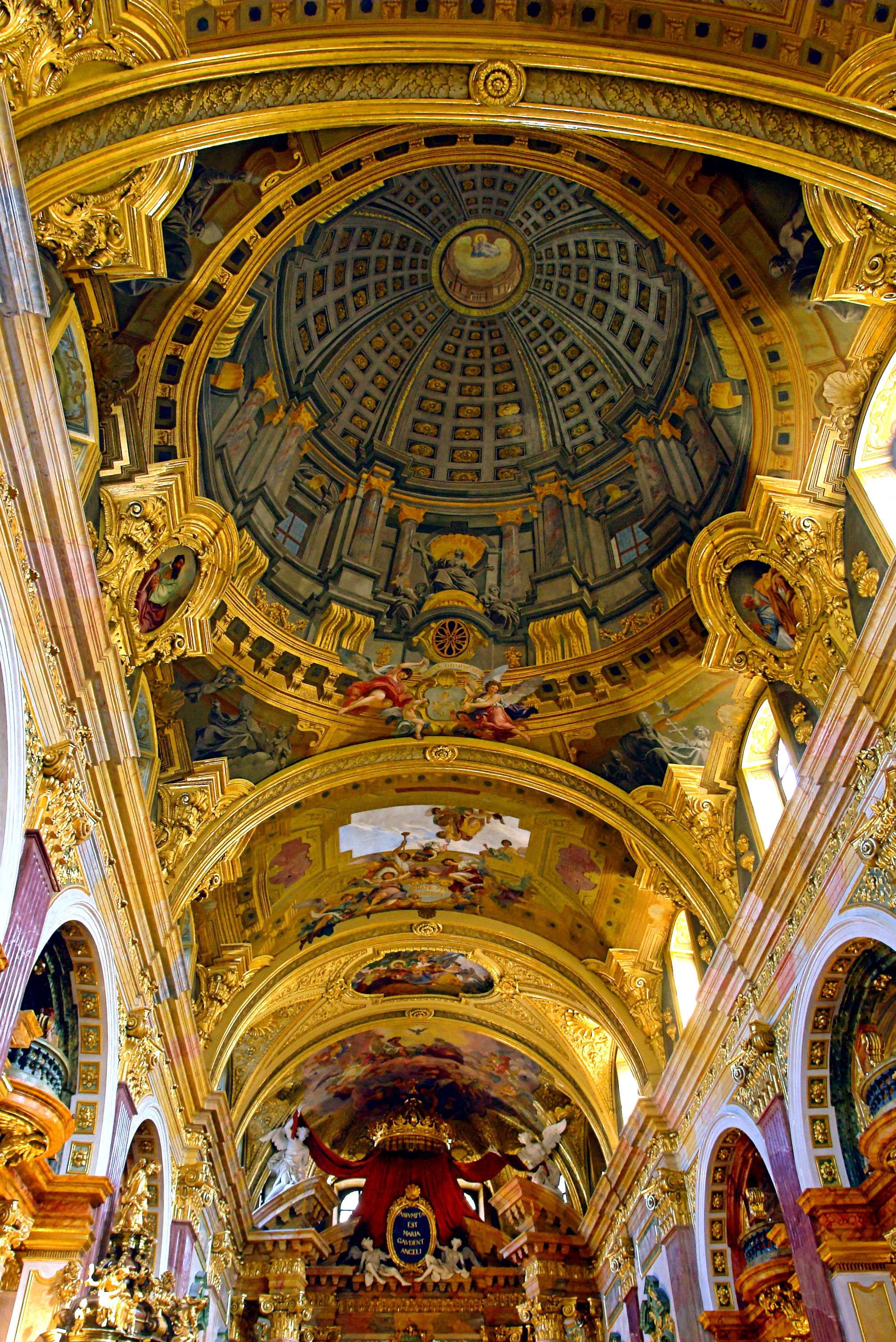 Fresco with Trompe l'oeil